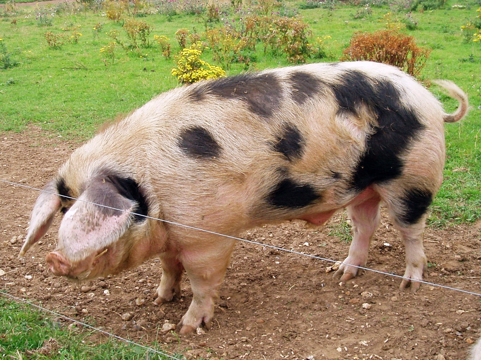 A Gloucester Old Spot breed boar (male pig) at a farm in England.